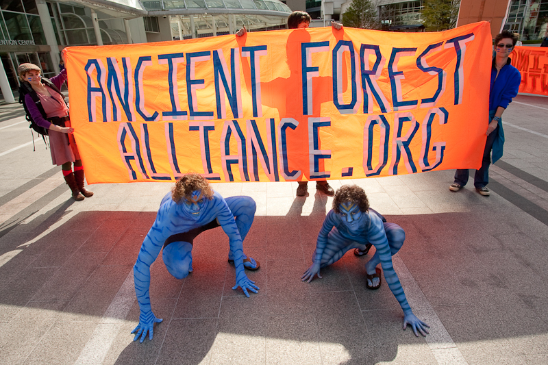 Ancient Forest Alliance supporters dressed up as Na'vi characters from the movie Avatar and rallied in Vancouver, BC for the protection of the province's endangered old-growth forests.